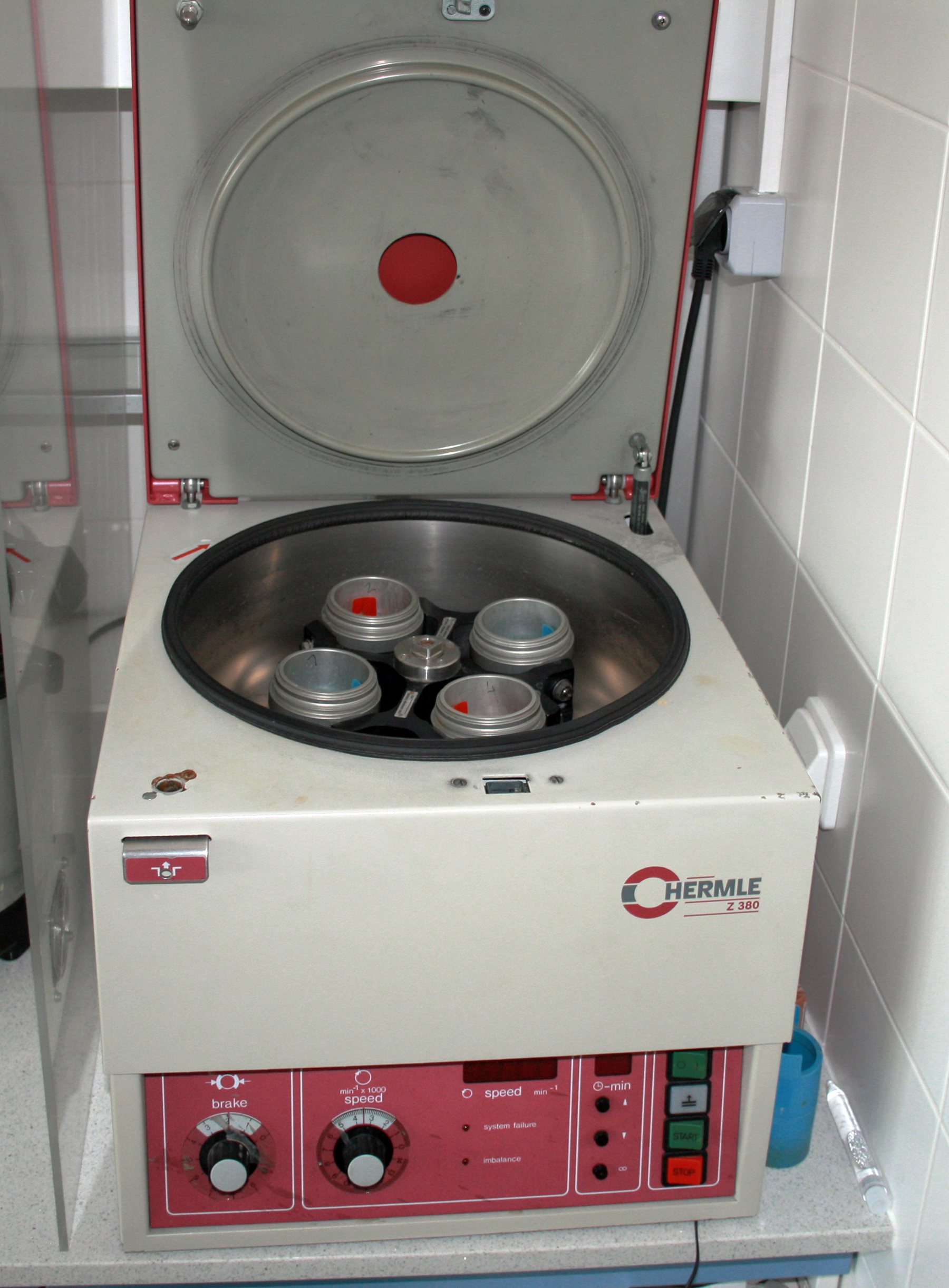 Laboratory Centrifuge Hermle Z 380